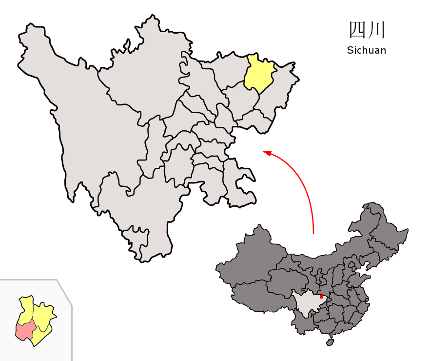 Location of Bazhou District (pink) and Prefecture (yellow) within Sichuan province of China Map drawn in october 2007 using various sources, mainly : Sichuan province administrative regions GIS data: 1:1M, County level, 1990 Sichuan Counties map from